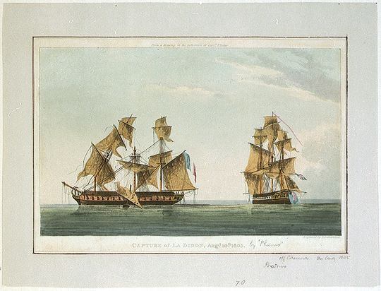 Capture of La Didon Augt 10th 1805 by Phoenix off Corunna